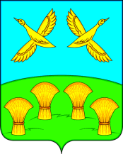 Coat of arms of Svobodnoye, Primorsko-Ajtarsk, Krasnodar, Russia.